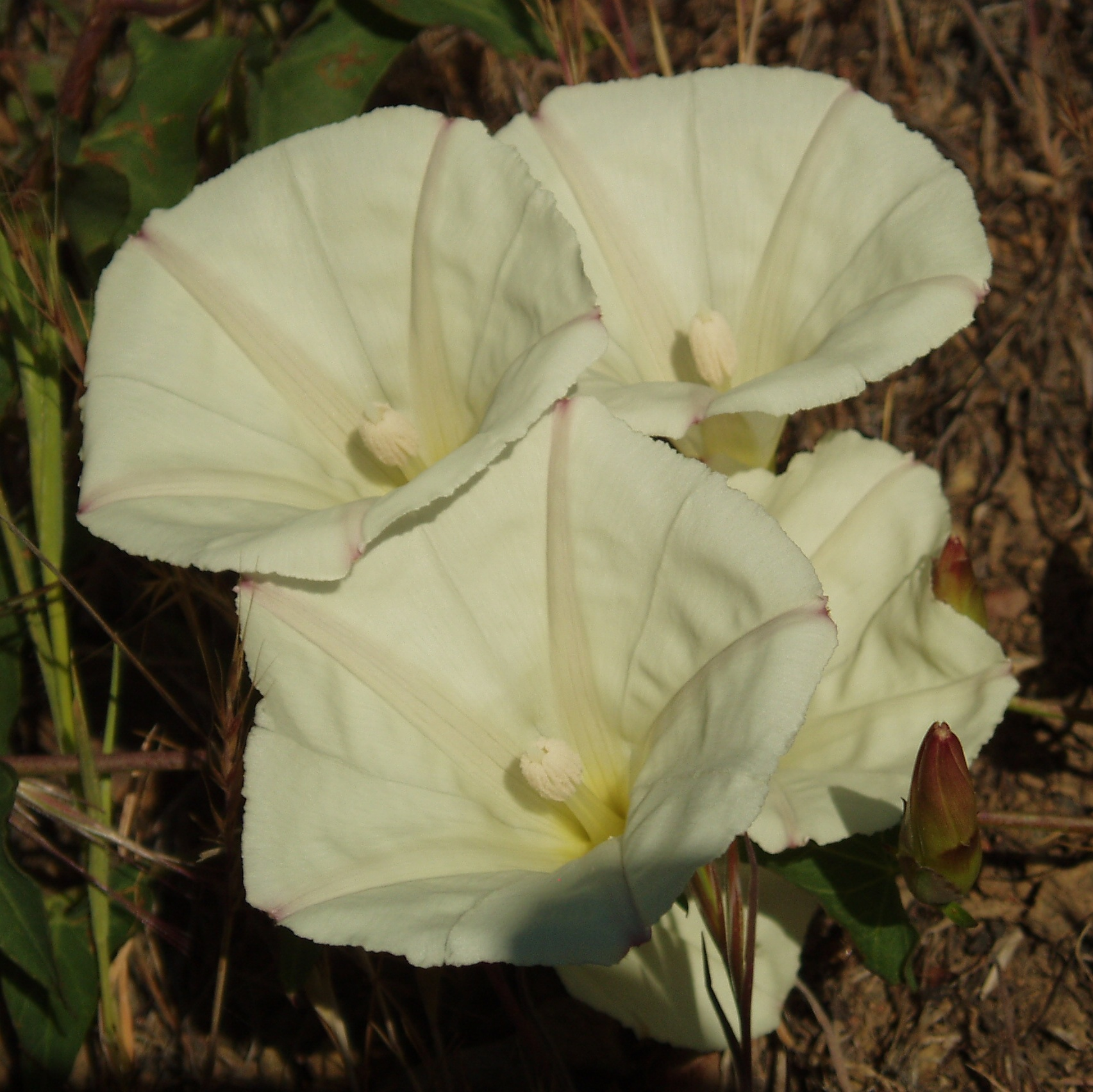 Calystegia occidentalis, along the Sweeney Ridge trail in San Mateo County, California.